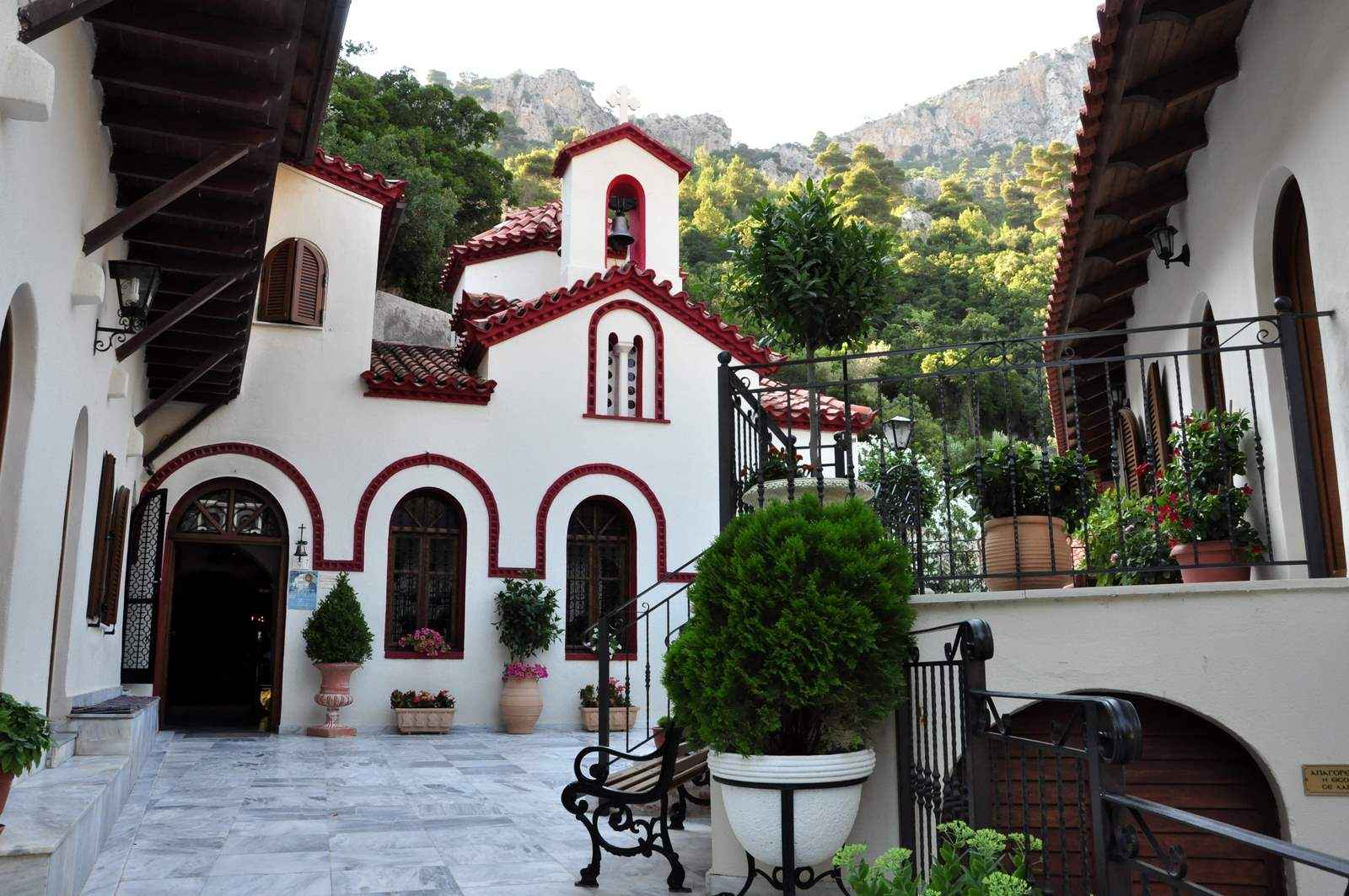 Parnitha Mountain, Attica, Greece. Moni Kleiston.